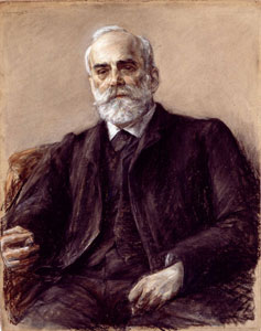 Legal scholar and liberal politician Albert Hänel painted by Max Liebermann